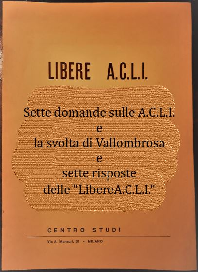 Digital simulation of the cover of the Libere Acli sette domande e la svolta di Vallombrosa e sette risposte delle "Libere Acli" published in 1971